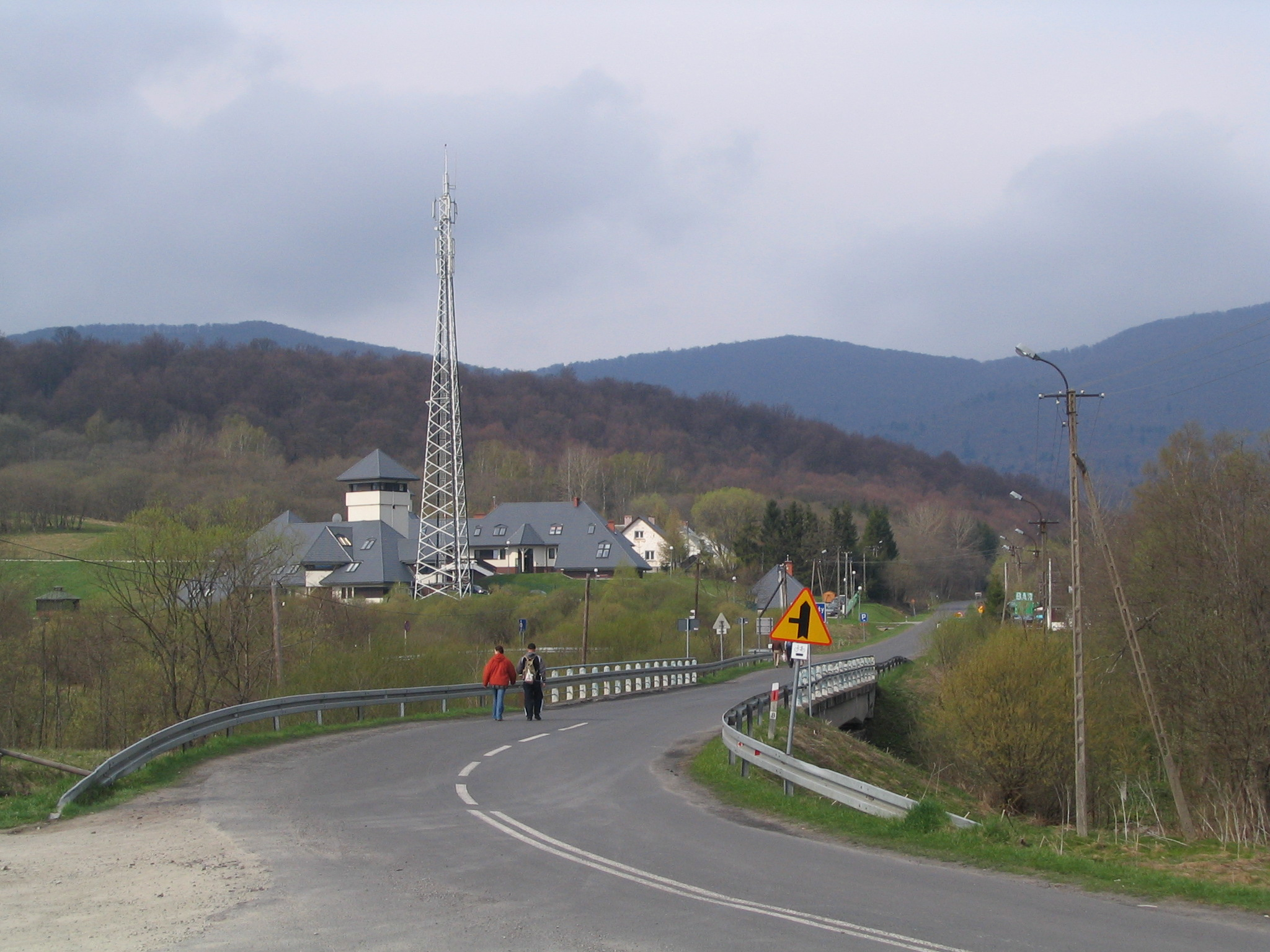 Ustrzyki Górne, Poland Author: Piotr Tysarczyk